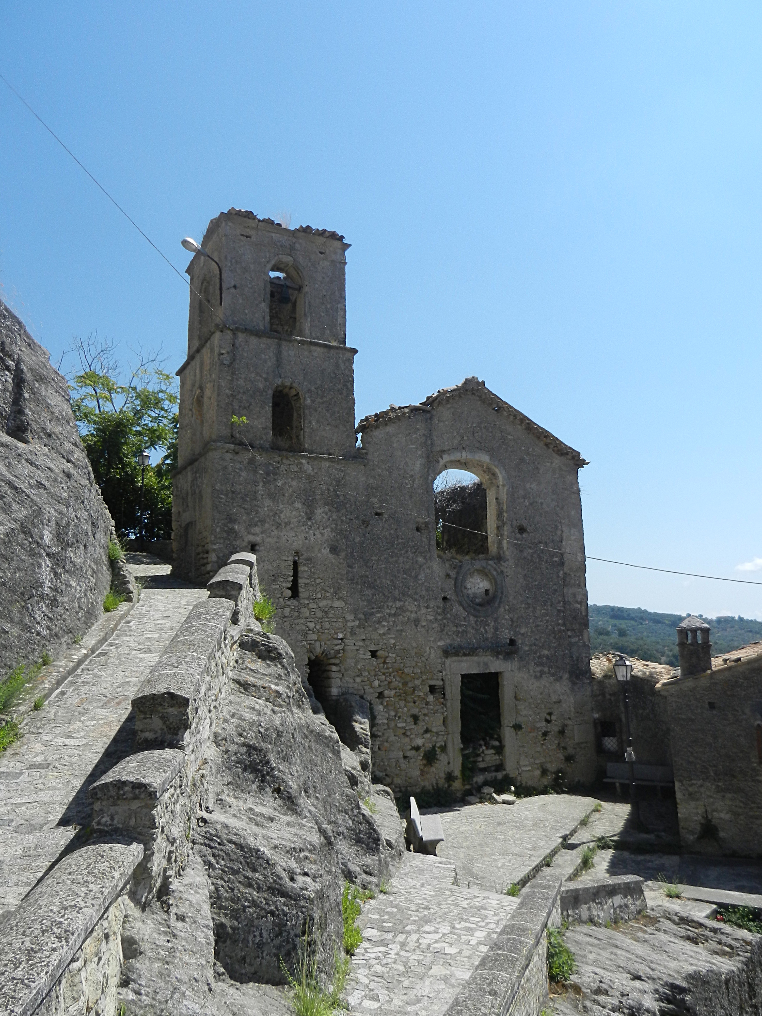 The abbandoned church of Santissimo Rosario in Cleto, a village of Calabria (Italy).